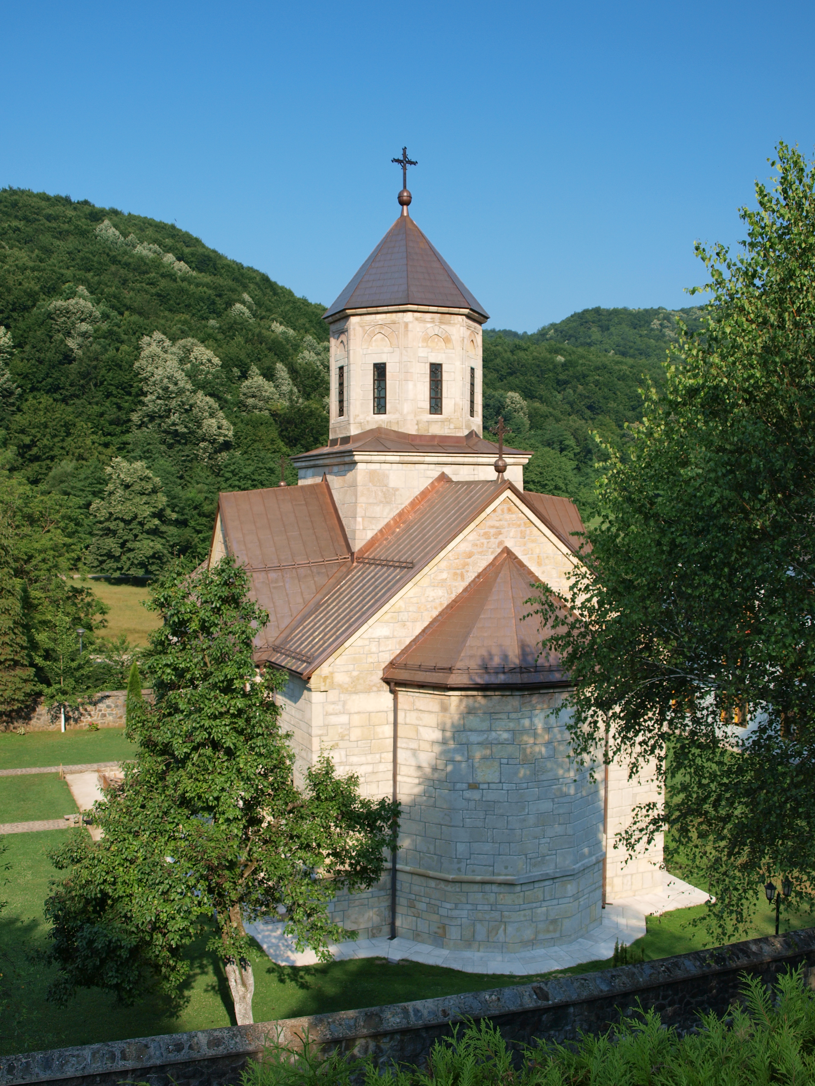 Serbian orthodox monastery Moštanica, near Kozarska Dubica, Bosnia.